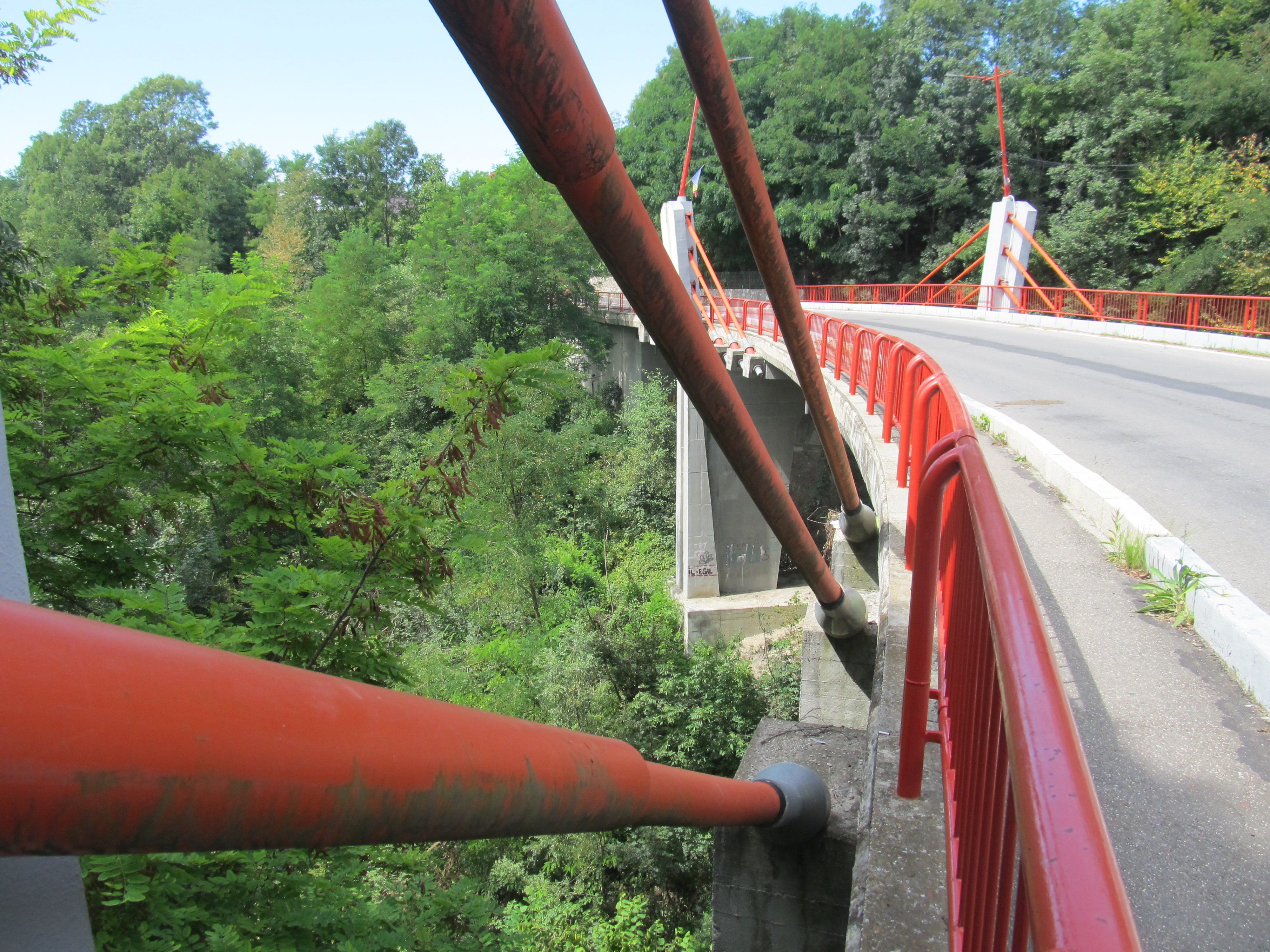 The cable-stayed bridge over the Valea Rea in the commune of Cornu, Prahova county, in Romania. It carries local road DC1.